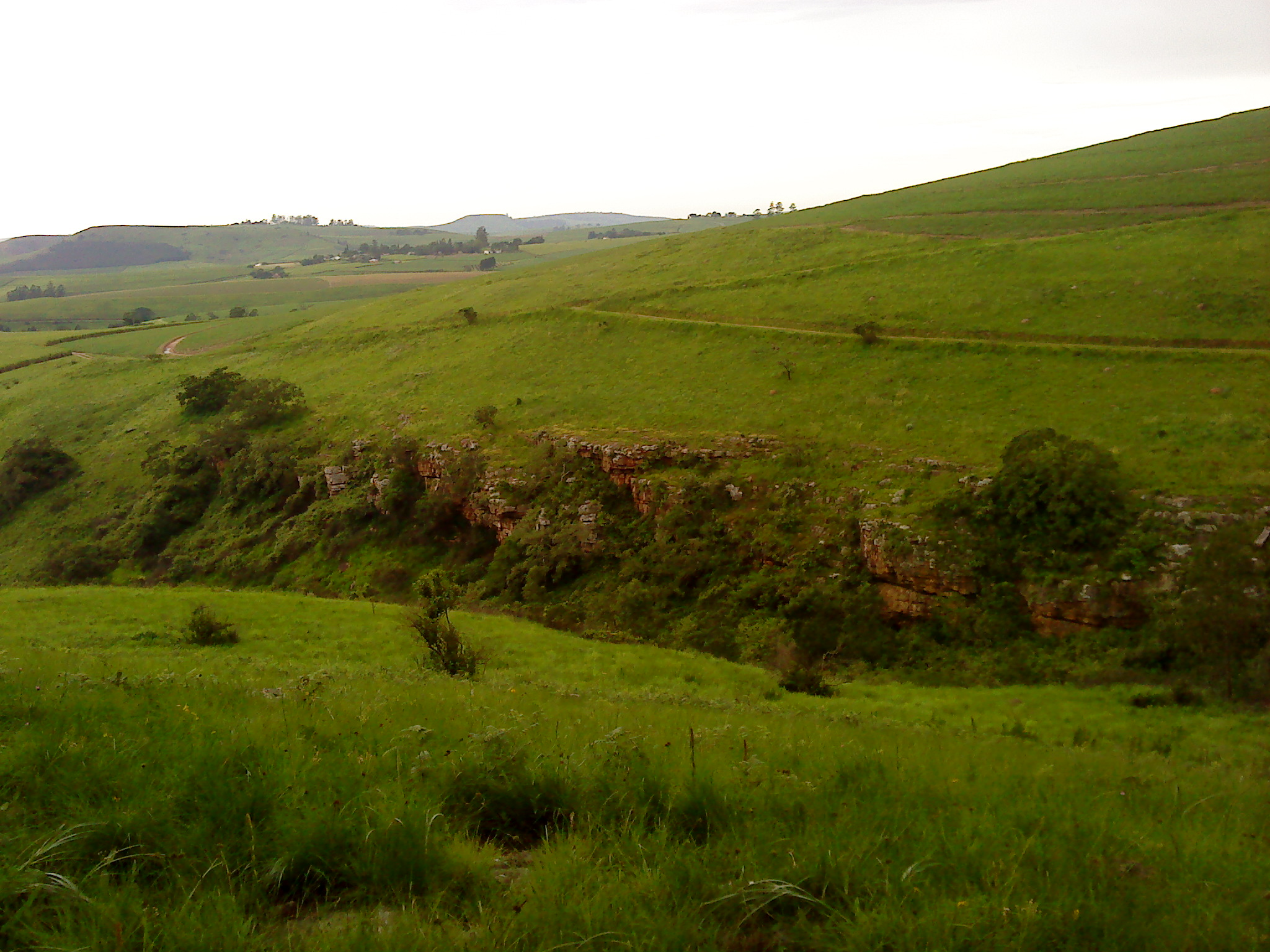 This is an image with the theme "Play" from: South Africa